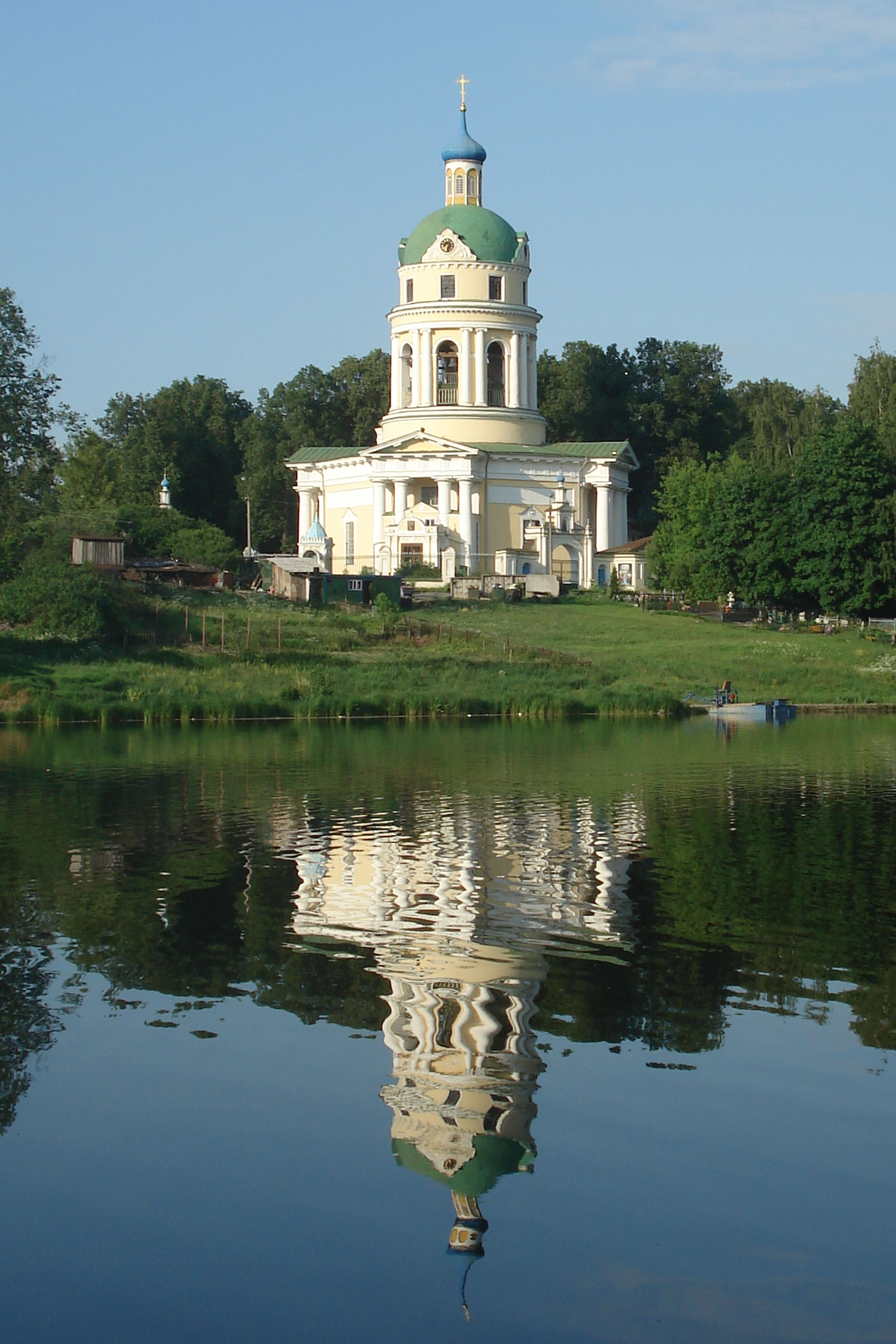 The Barsky Ponds, left side of the river of Luboseevka, Saint Nicholas' Church, the village of Grebnevo, Moscow oblast